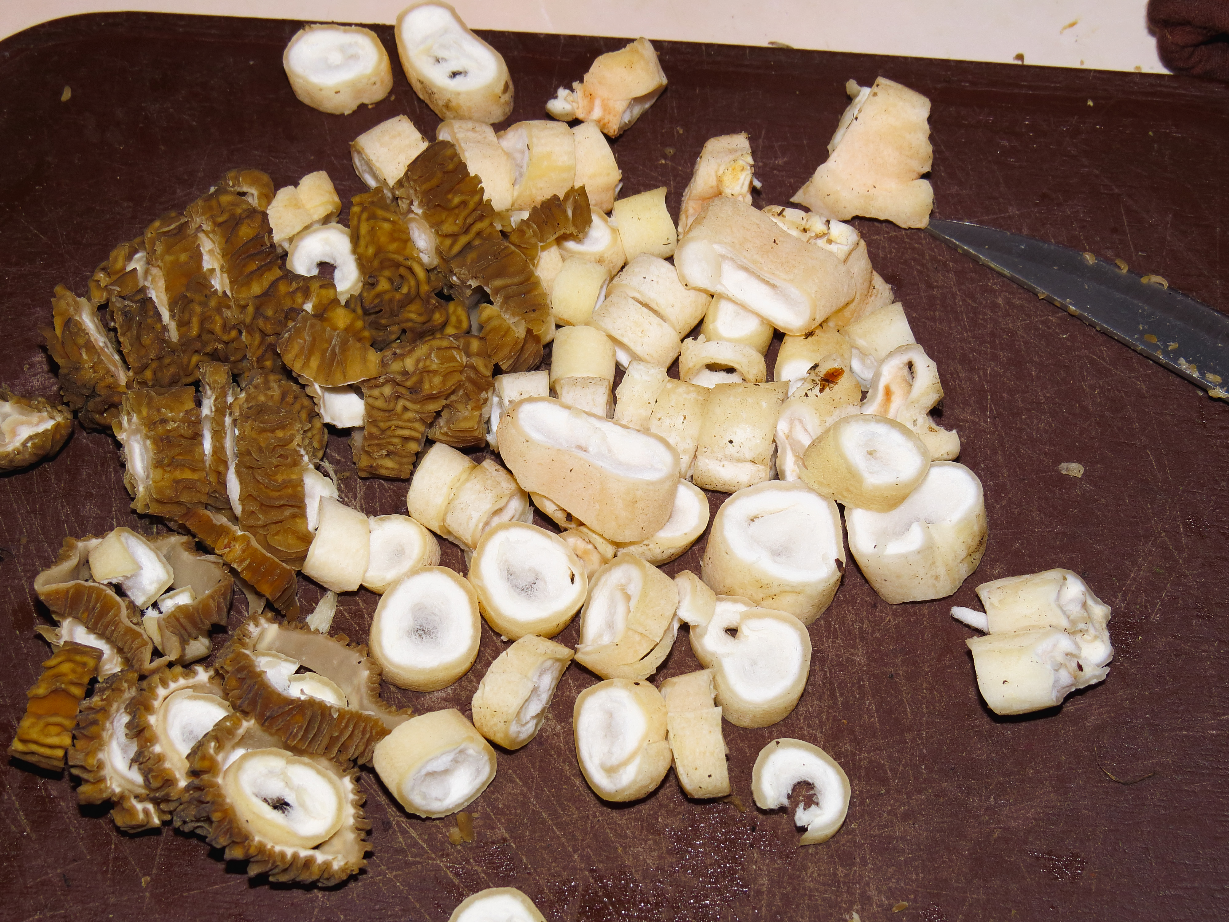 Homemade preparing of roasted early morels. 2. Cutting